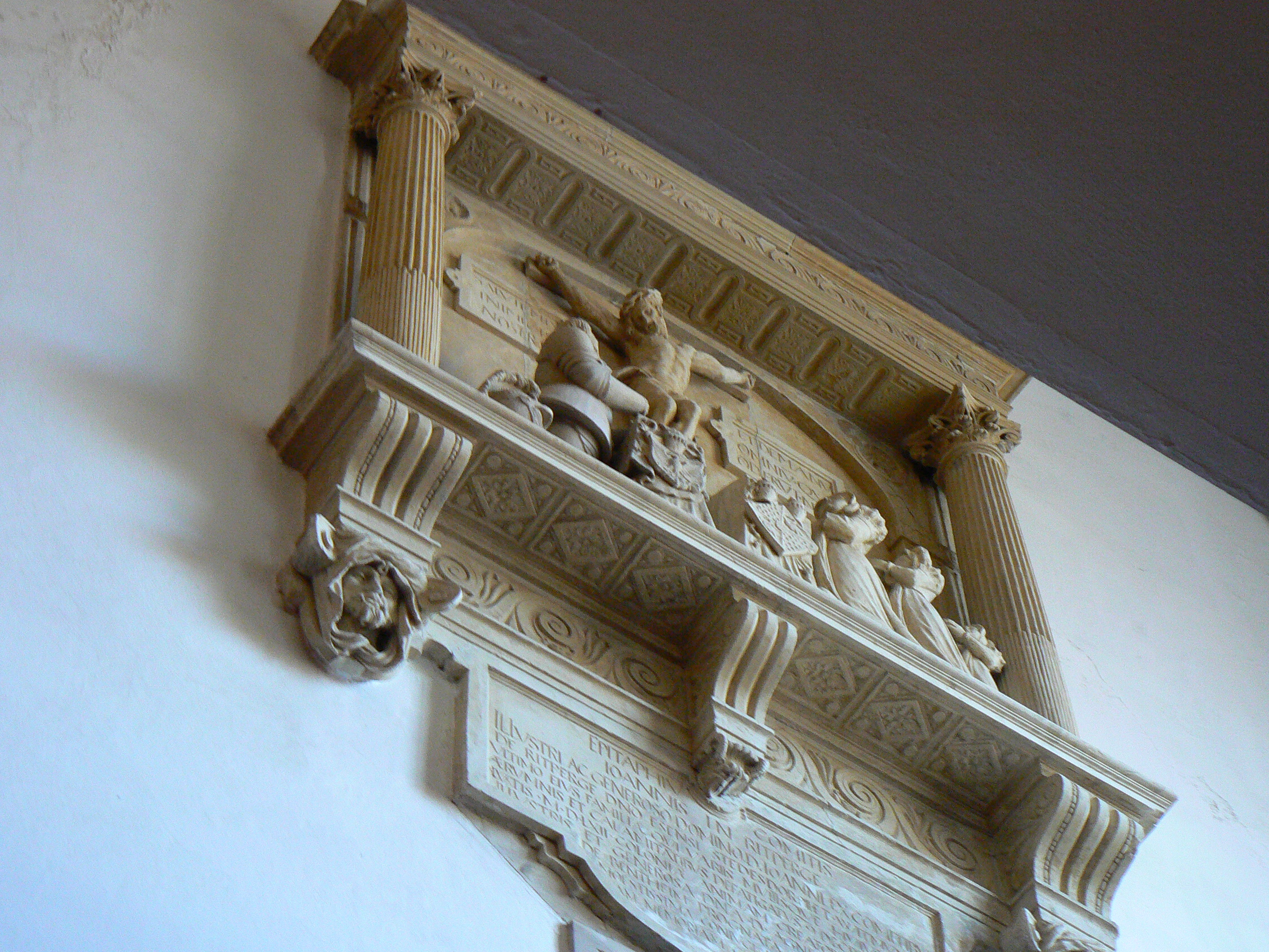 Rietberg-Epitaph (1562) in St.Magnus Kirche in Esens